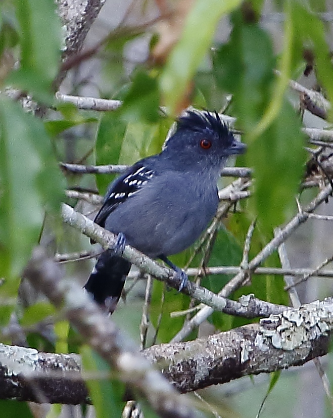 Natterer's slaty-antshrike (male) at Carajás National Forest, Pará, Brazil